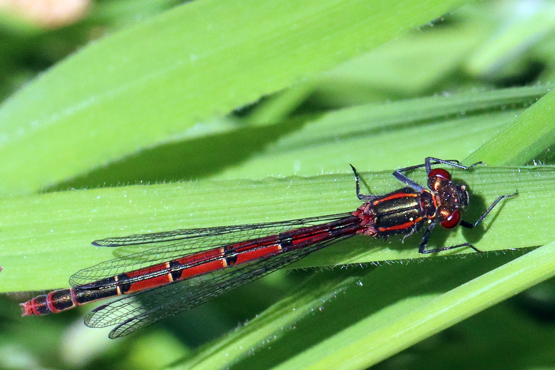 Large Red damselfly (Pyrrhosoma nymphula) mature female, form fulvipes, Leek Wootton, Warwickshire